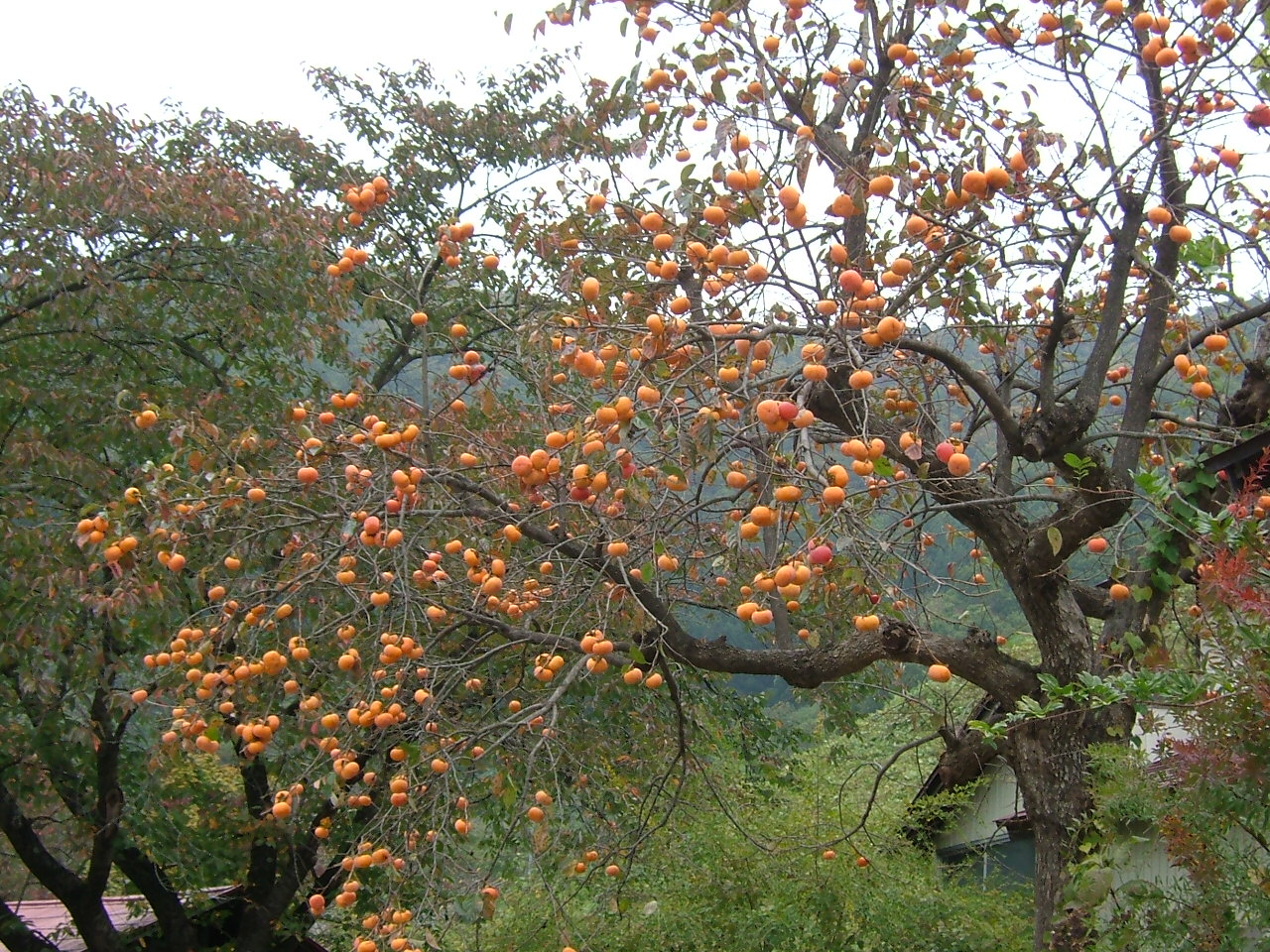 Persimmons in Nakagawa, Nanyo City, Yamagata Prefecture, Japan. I took this photo with a digital camera in October 2005.